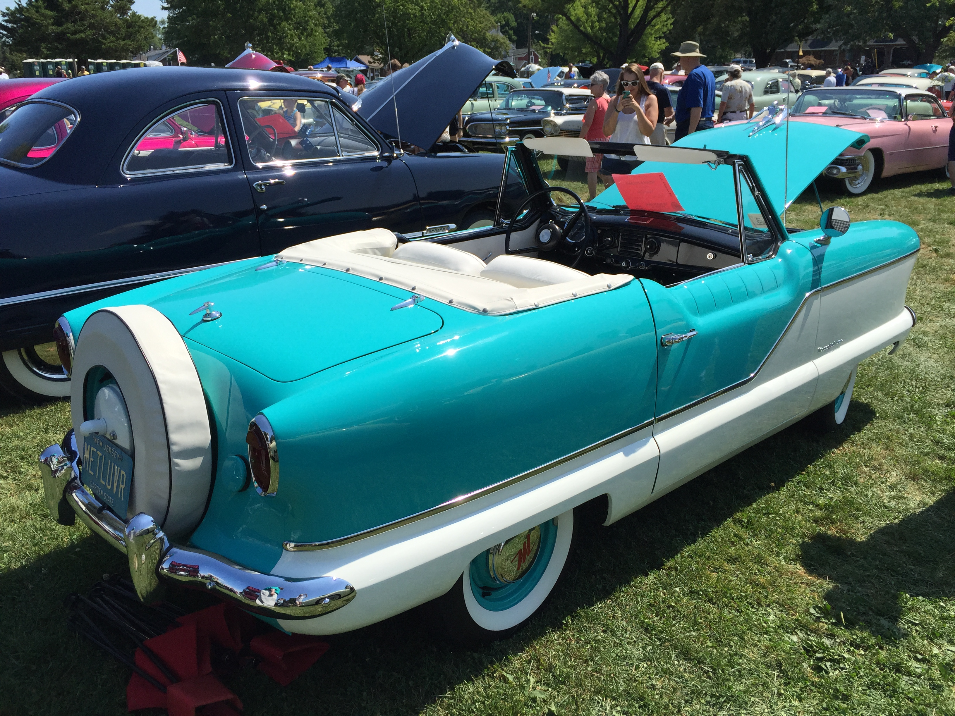 1960 Nash Metropolitan convertible distributed by American Motors. The "Mets" were built from 1953 to 1961. It was developed by Nash Motors and also sold as a Hudson when Nash and Hudson merged in 1954 to form the American Motors Corporation (AMC), and subsequently as a standalone marque during the Rambler years. Picture taken at the 52nd Annual "Das Awkscht Fescht" antique car show in Macungie, Pennsylvania.